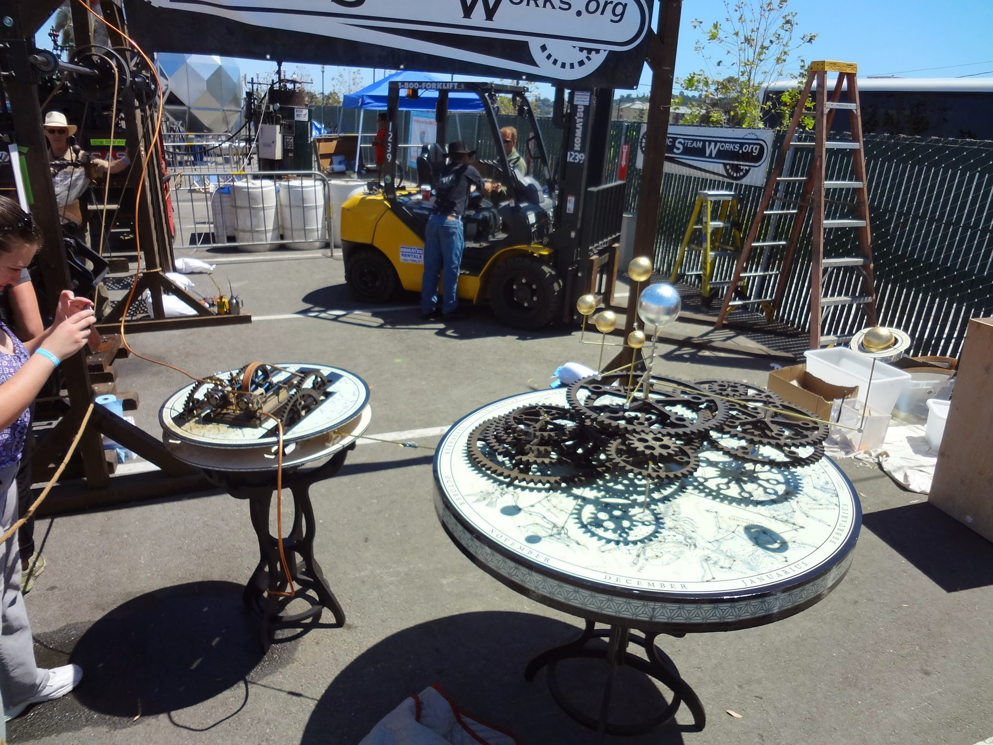 The Kinetic Steam Works area at the Bay Area Maker Faire, 2013